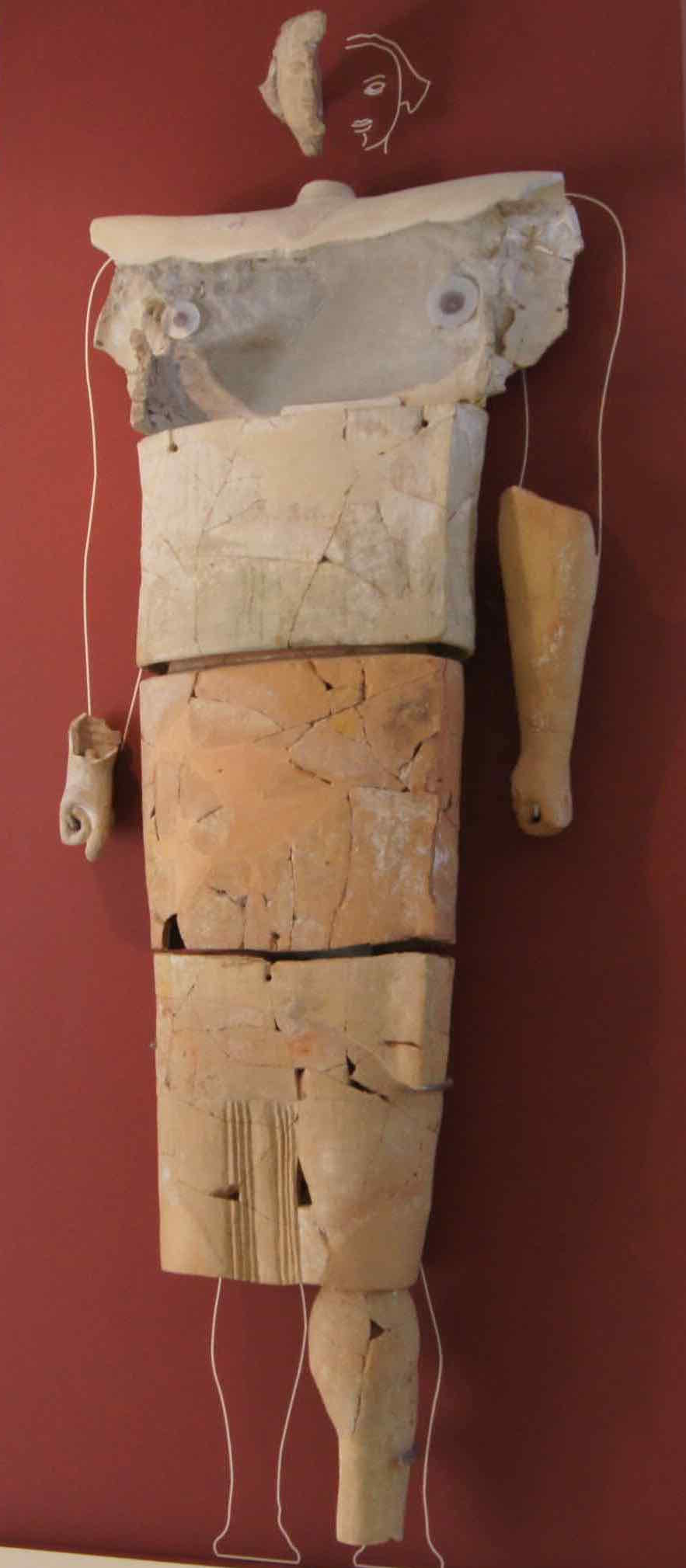 terracotta from Marion, Polis Museum